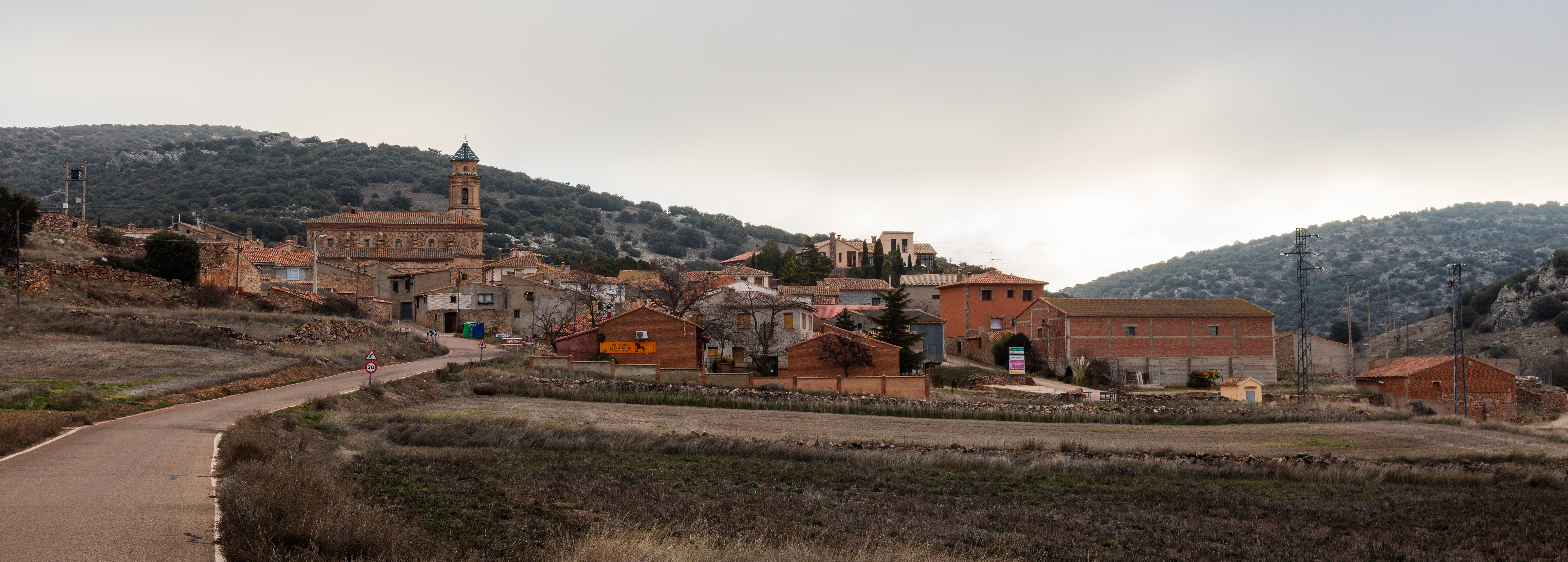 Berrueco, Zaragoza, Spain